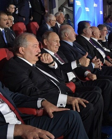 At the closing ceremony of the 2nd European Games.